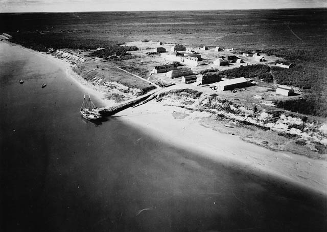 Aerial view of York Factory Original caption: "York Factory Air Board 1925Location: York Factory, Manitoba Courtesy Library & Archives Canada, E004665616"